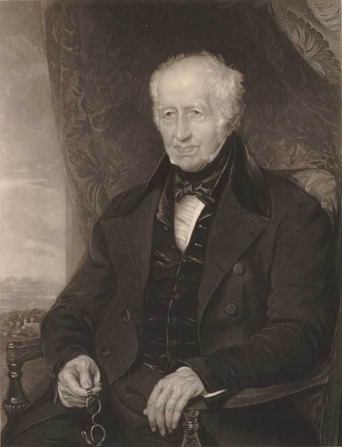 Portrait of Edward King Fordham (1750–1847), English banker.